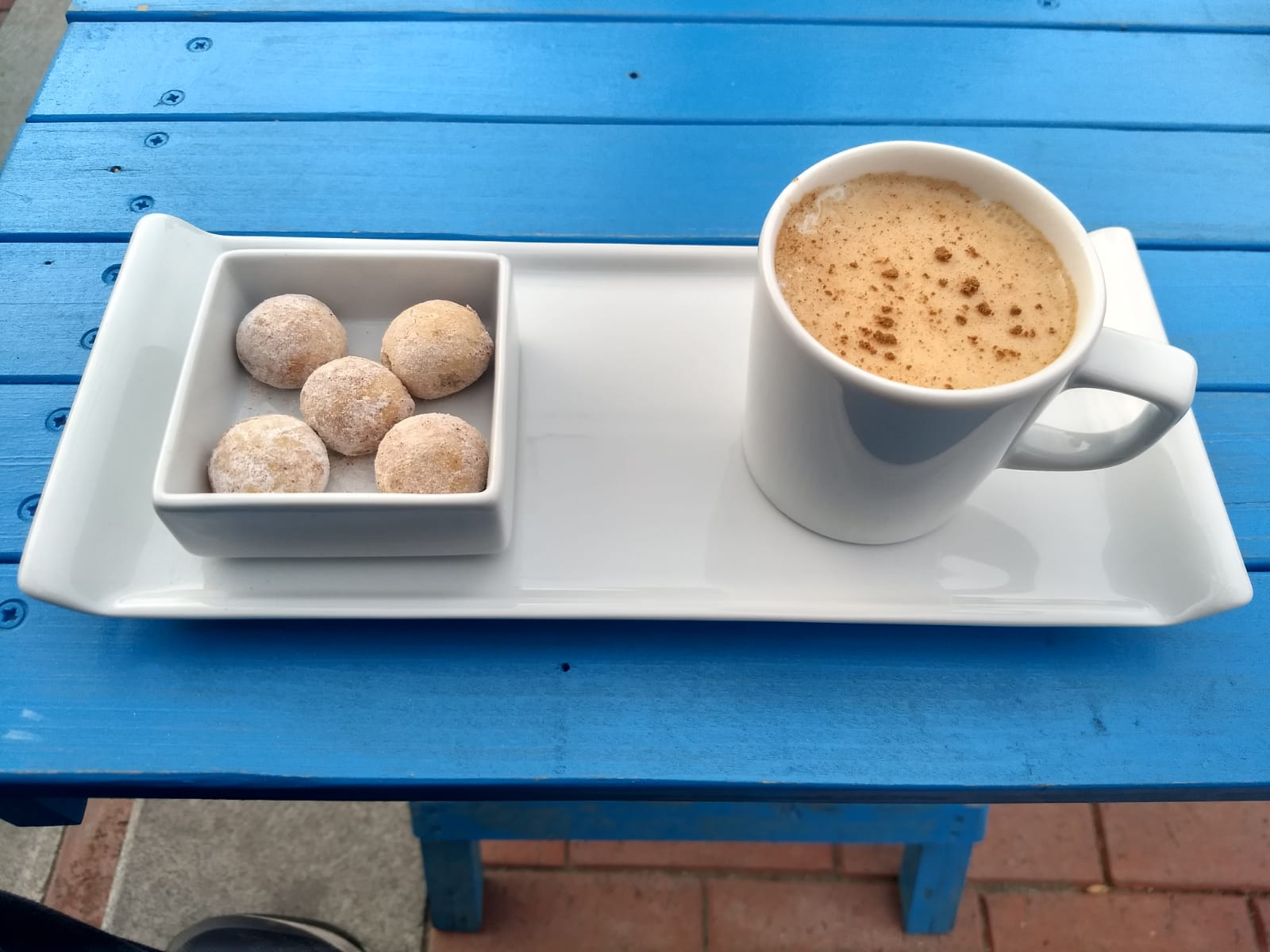 Turkish salep and flour cookies (un kurabiyesi), bought from a local café in Kale, Altındağ, Ankara.